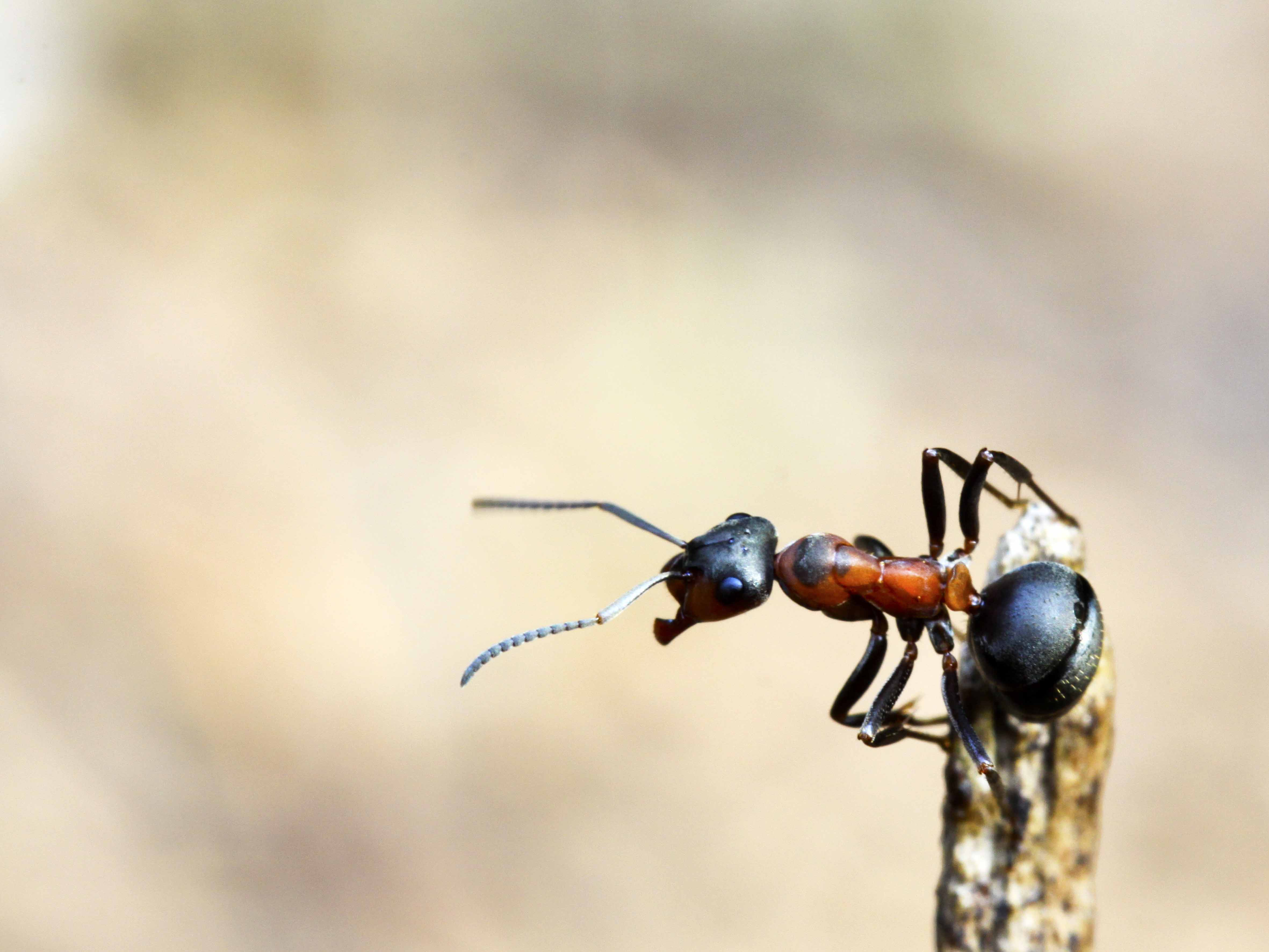 early in the morning they don't run that fast